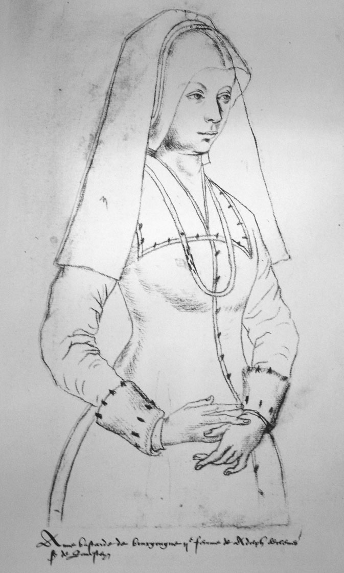 From the Arras Codex (Recueil d'Arras). Arras, Bibliothèque Municipale. Part of Recueil d'Arras